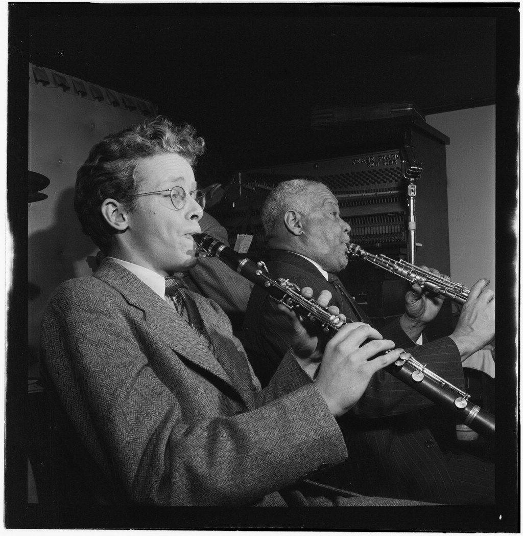 Portrait of Bob Wilber and Sidney Bechet, Jimmy Ryan's (Club), New York, N.Y.